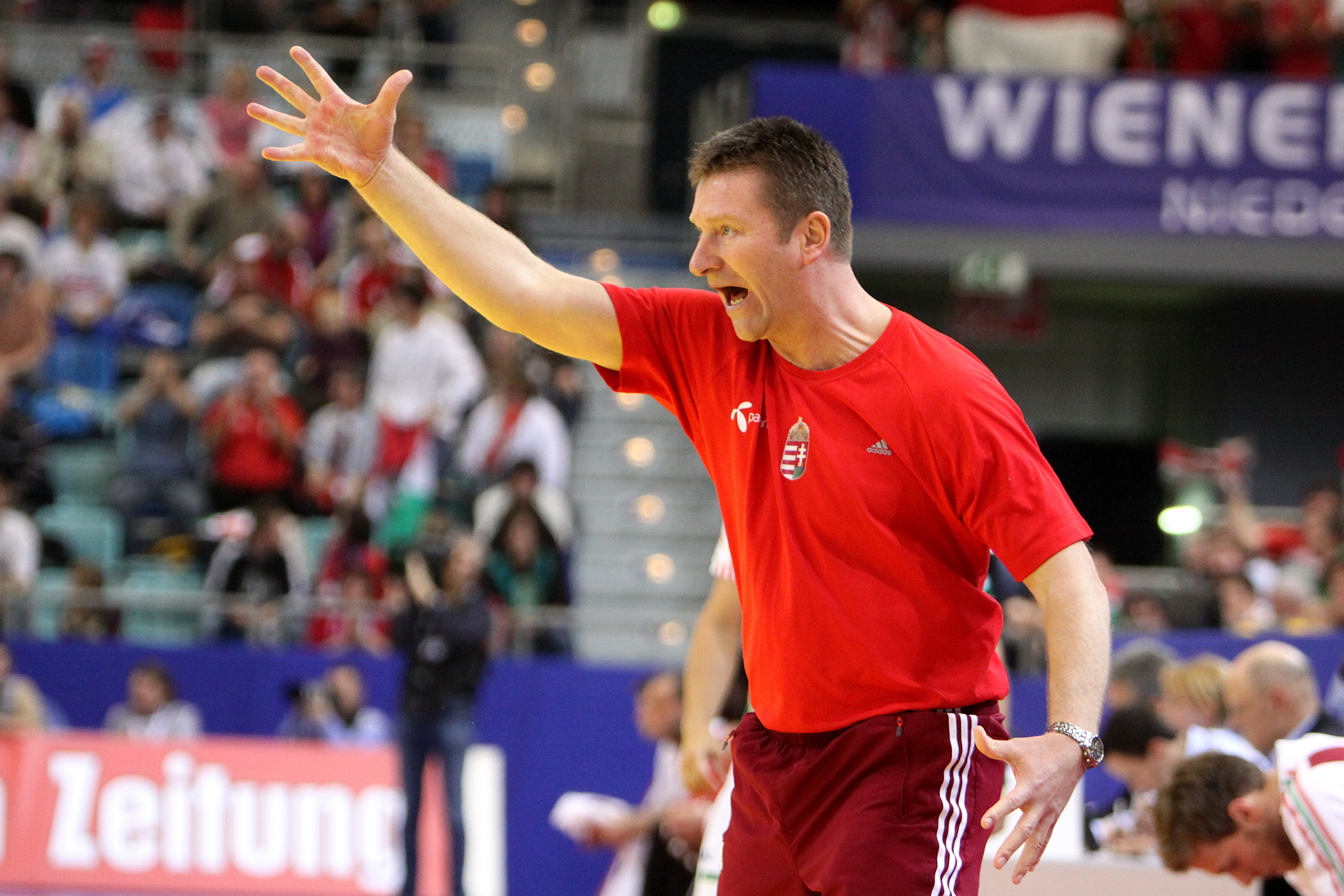 István Csoknyai (Teamchef), Hungary national handball team